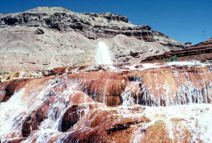 Image by Richard M. Warnick, Utah Wilderness Atlas